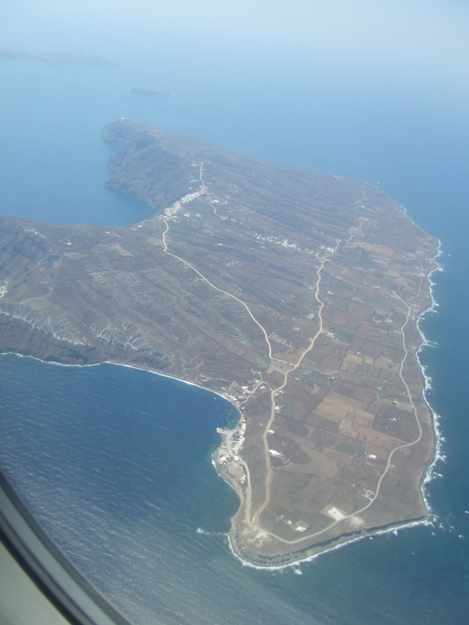 Thirassia from north to south, airview